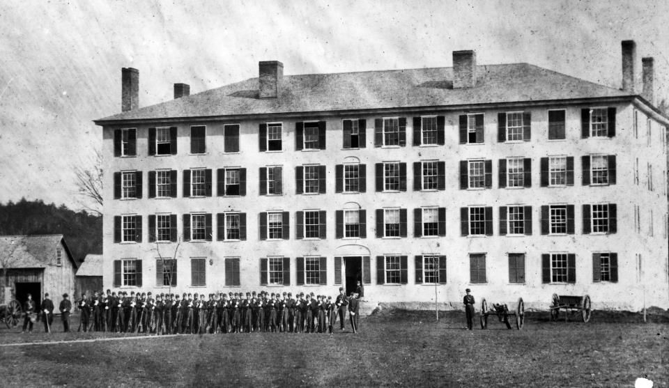 Old South Barracks at Norwich University before 1866